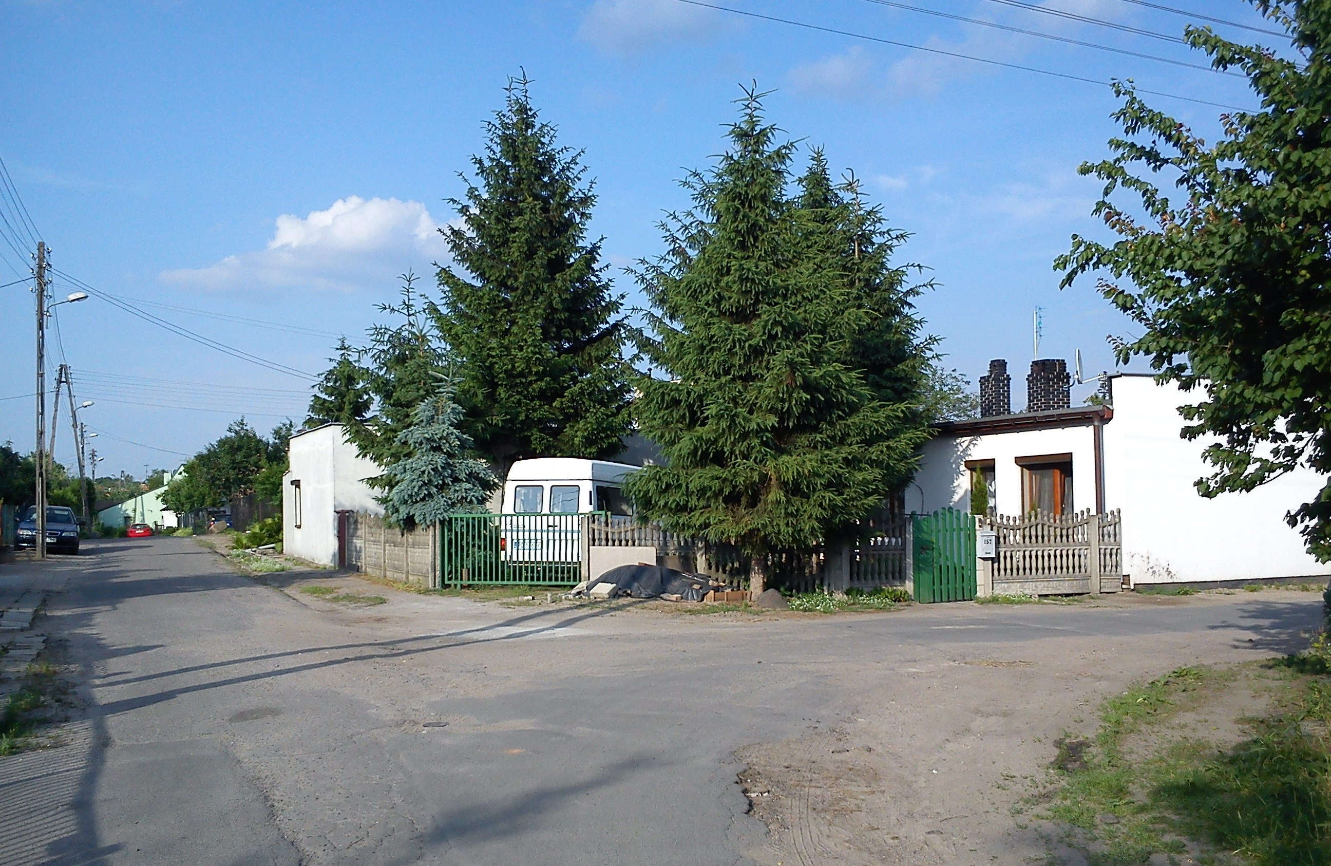 Skorupki District, Poznan.